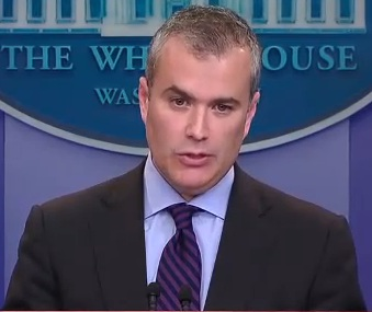 Jeffrey Zients, Deputy Director of Management at the Office of Management and Budget, discusses the implications of a possible government shutdown.